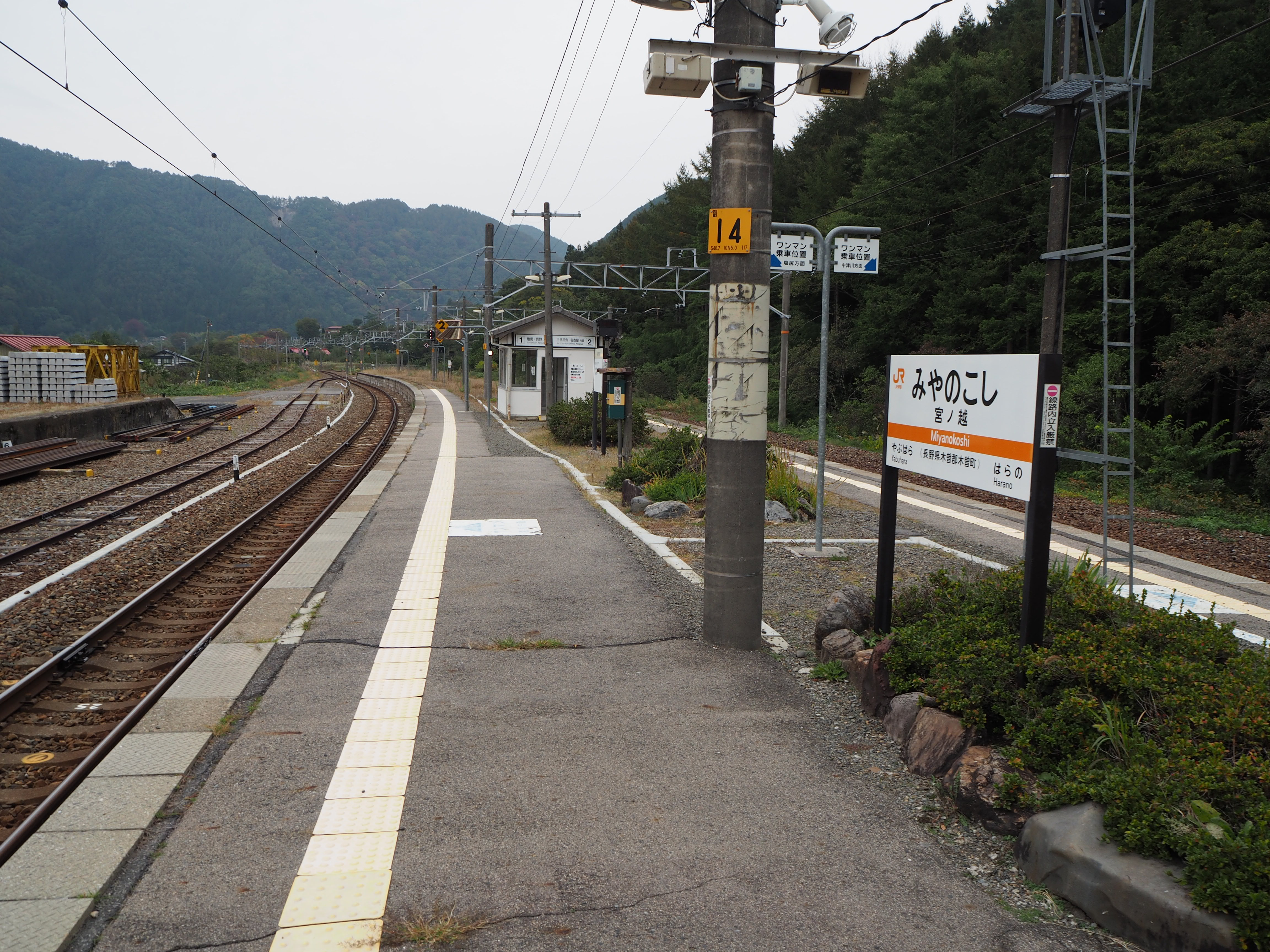 Platforms of Miyanokoshi Station